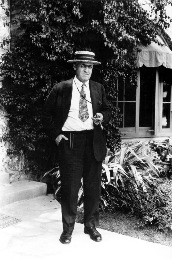 Local call number: RC09345 Title: Novelist and Olympian Rex Beach: Coral Gables, Florida Date: 1925 Photographer: William A. Fishbaugh Physical descrip: 1 photoprint - b&w - 10 x 8 in. Series Title: Reference Collection Repository: State Library and Archives of Florida, 500 S. Bronough St., Tallahassee, FL 32399-0250 USA. Contact: 850.245.6700. Persistent URL